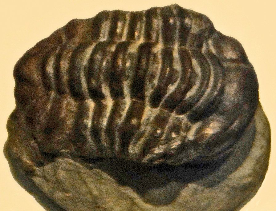 Cropped image of taxon in file name